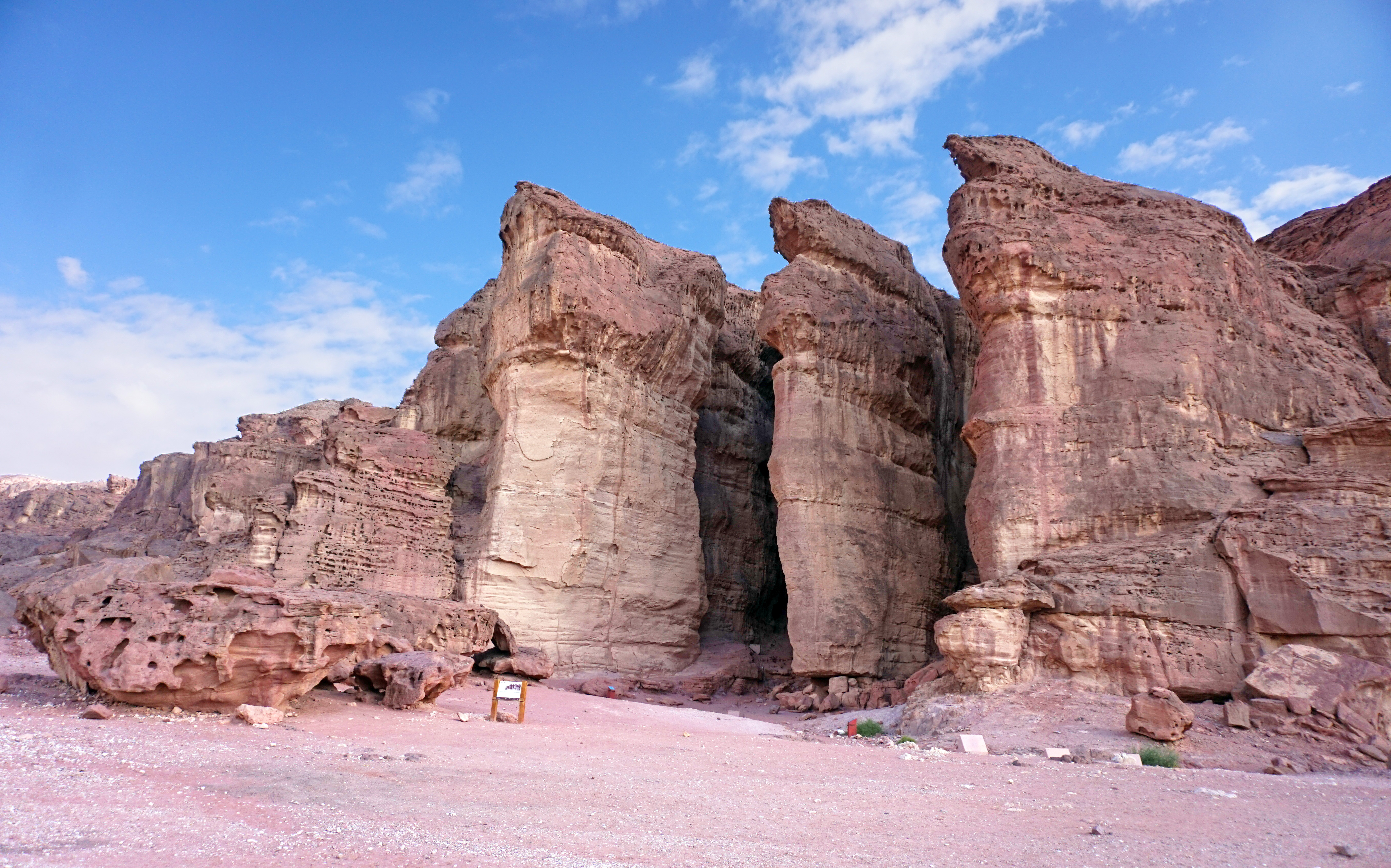 Solomon's Pillars rock formation in Timena Park, Israel.This photograph was taken with a Sony ILCE-5000